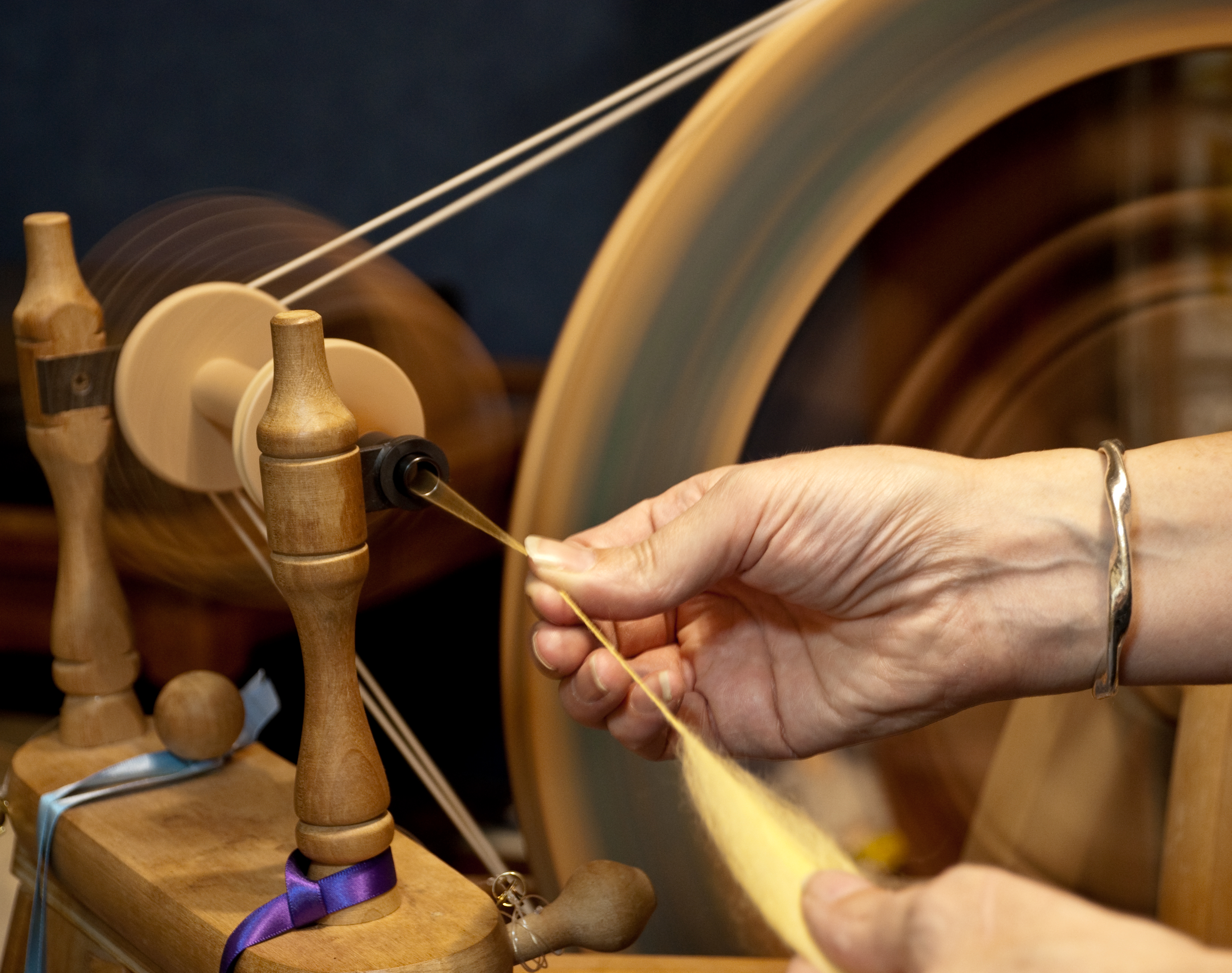 Using a spinning wheel to spin fibre into yarn. Taken with a long exposure.